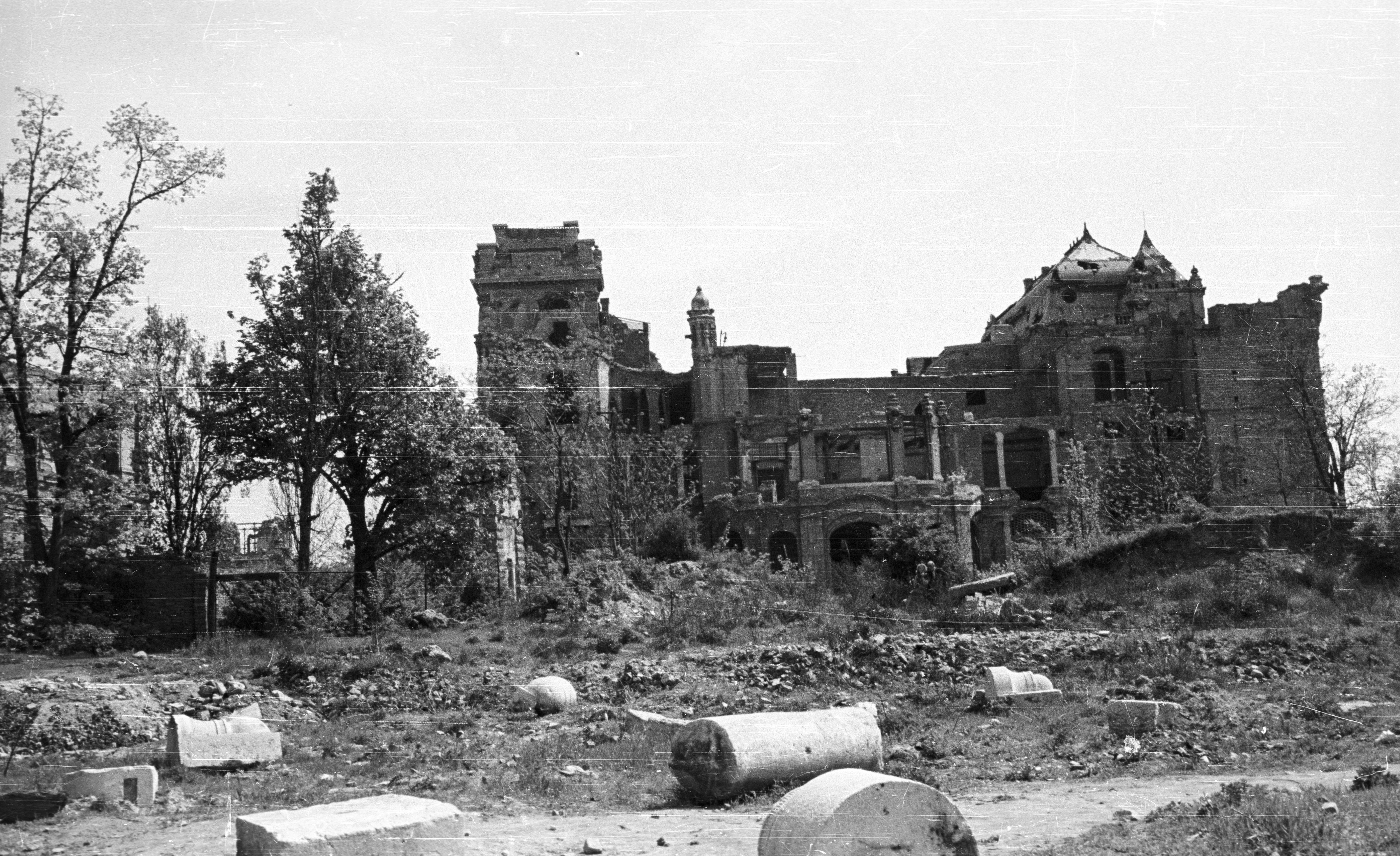 Palace of Archduke Joseph, ex Teleki-Apartment Palais, Facade overlooking Fehérvári gate Location: Hungary, Budapest I. Tags: damaged building, war damage, Budapest Title: a József főherceg-palota romjai a Fehérvári kapu felől nézve.